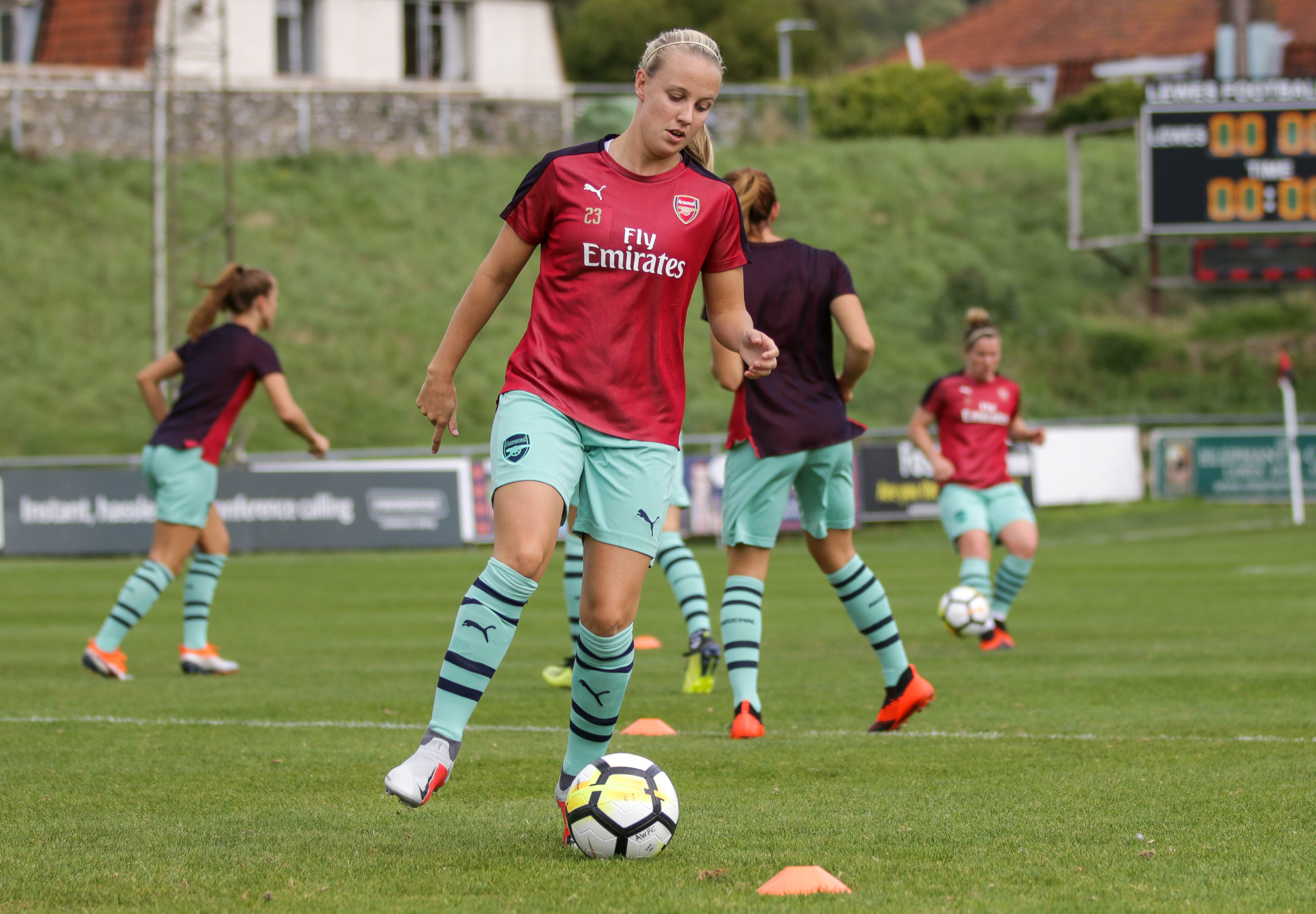 Beth Mead